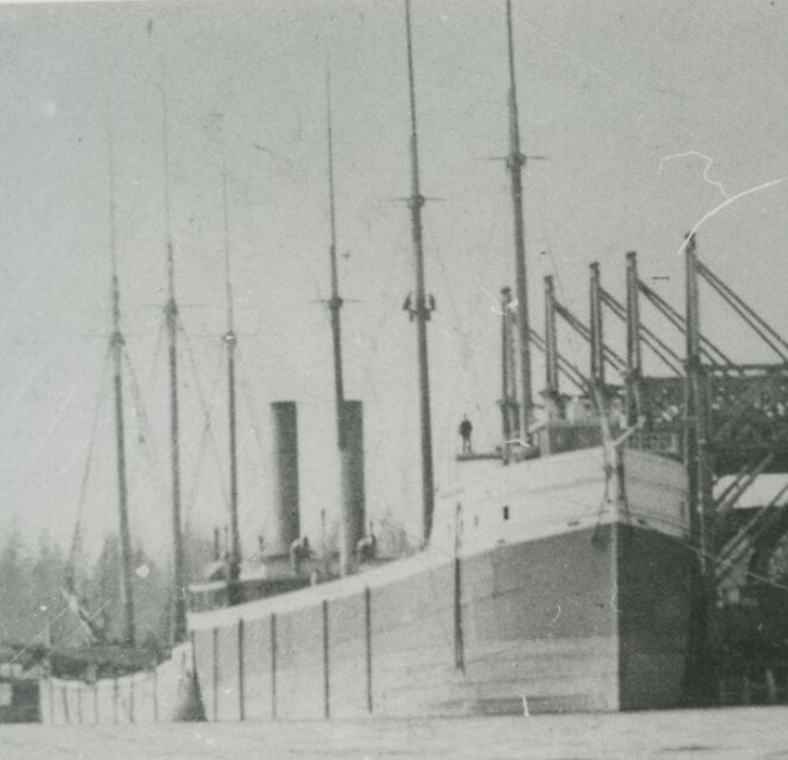 The steamer Australasia in Fort William, Ontario